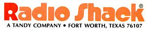 The logo of the RadioShack corporation in 1977.